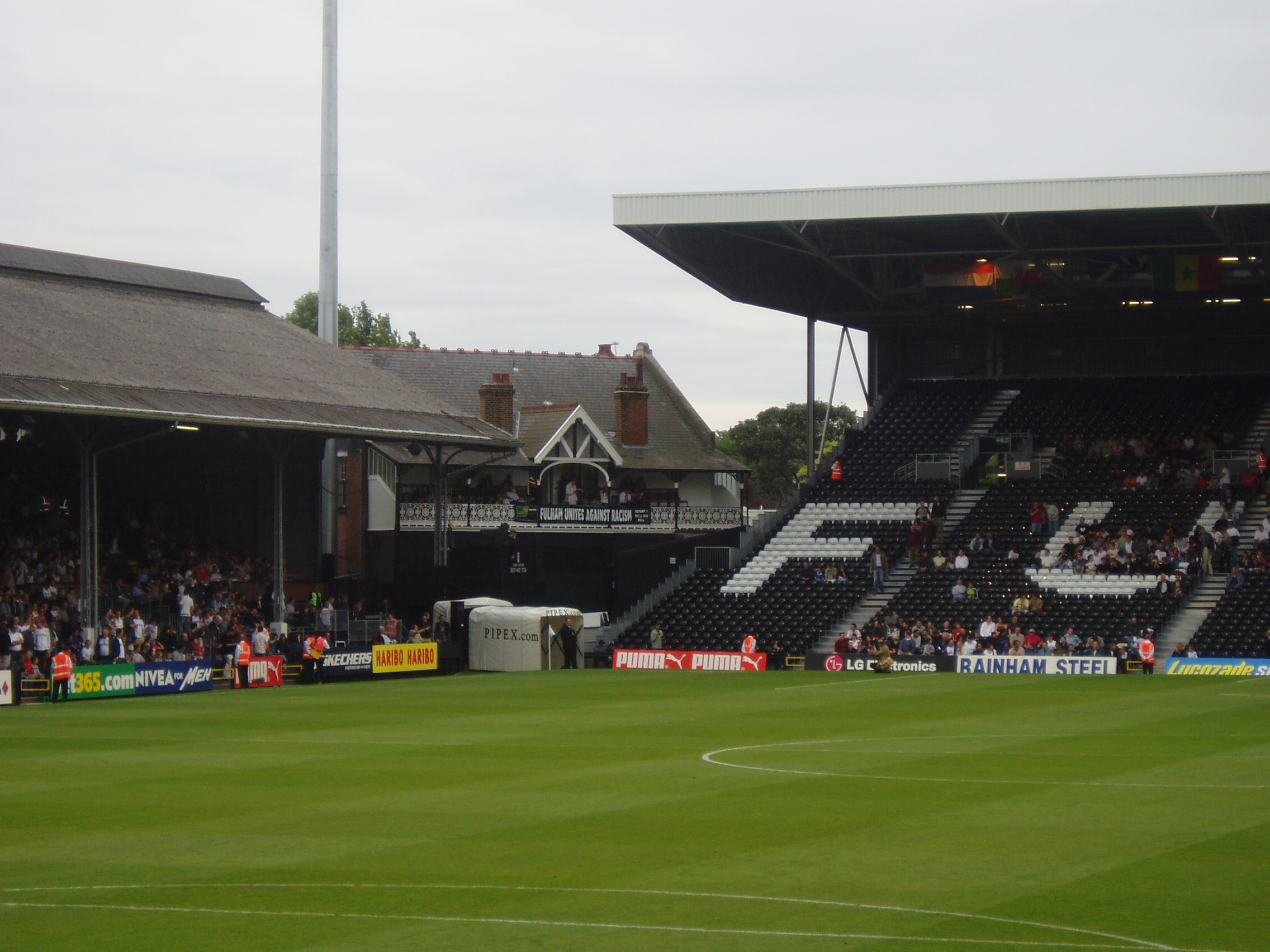 Samuel James, 2007Sammy222fulham 13:11, 27 July 2007 (UTC)